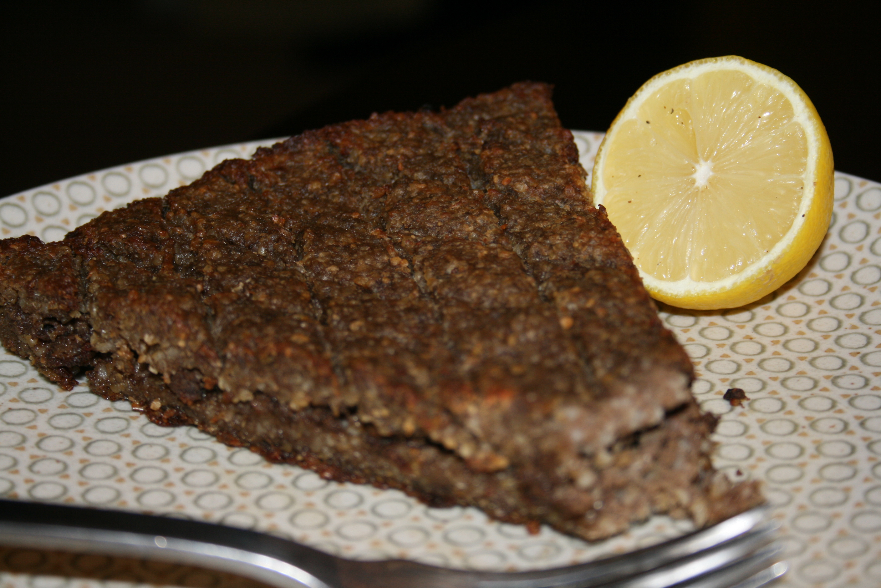 Kibbeh pie